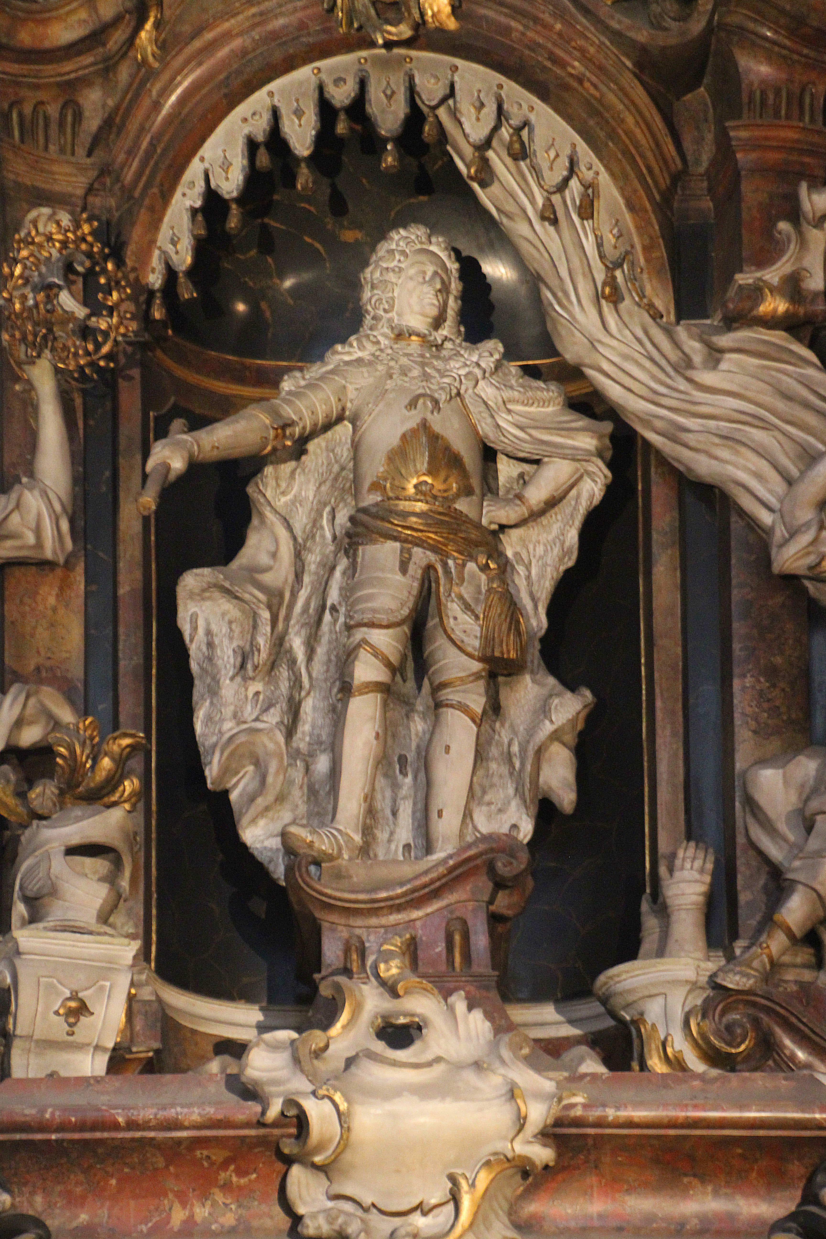 Epitaph of Margrave Louis William in the Stiftskirche Baden-Baden.